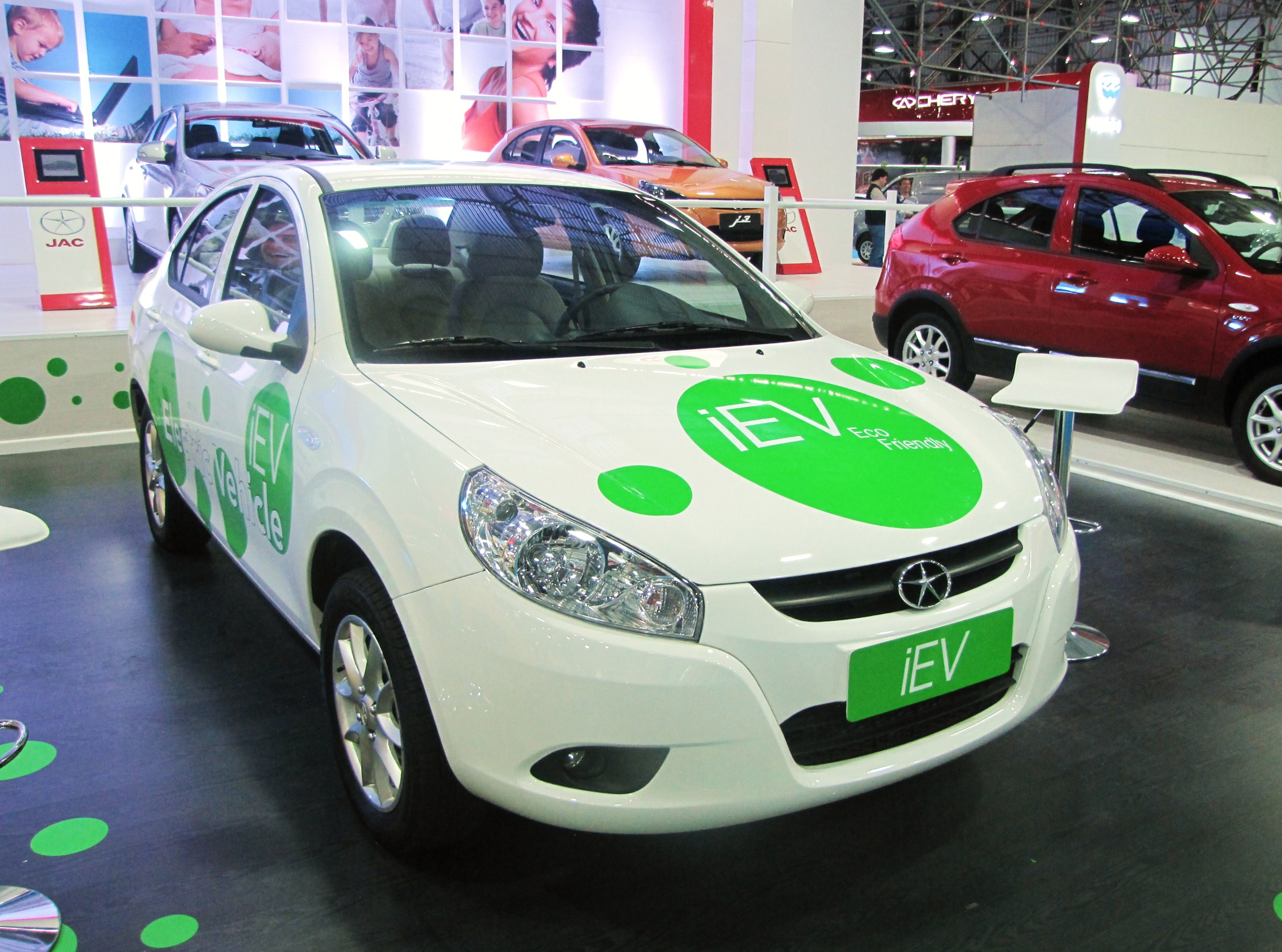 JAC J3 iEV electric car exhibited at the 2012 Santiago Auto Show, Chile